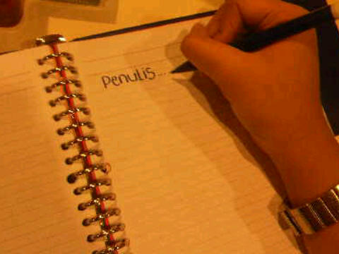 penulis = writer